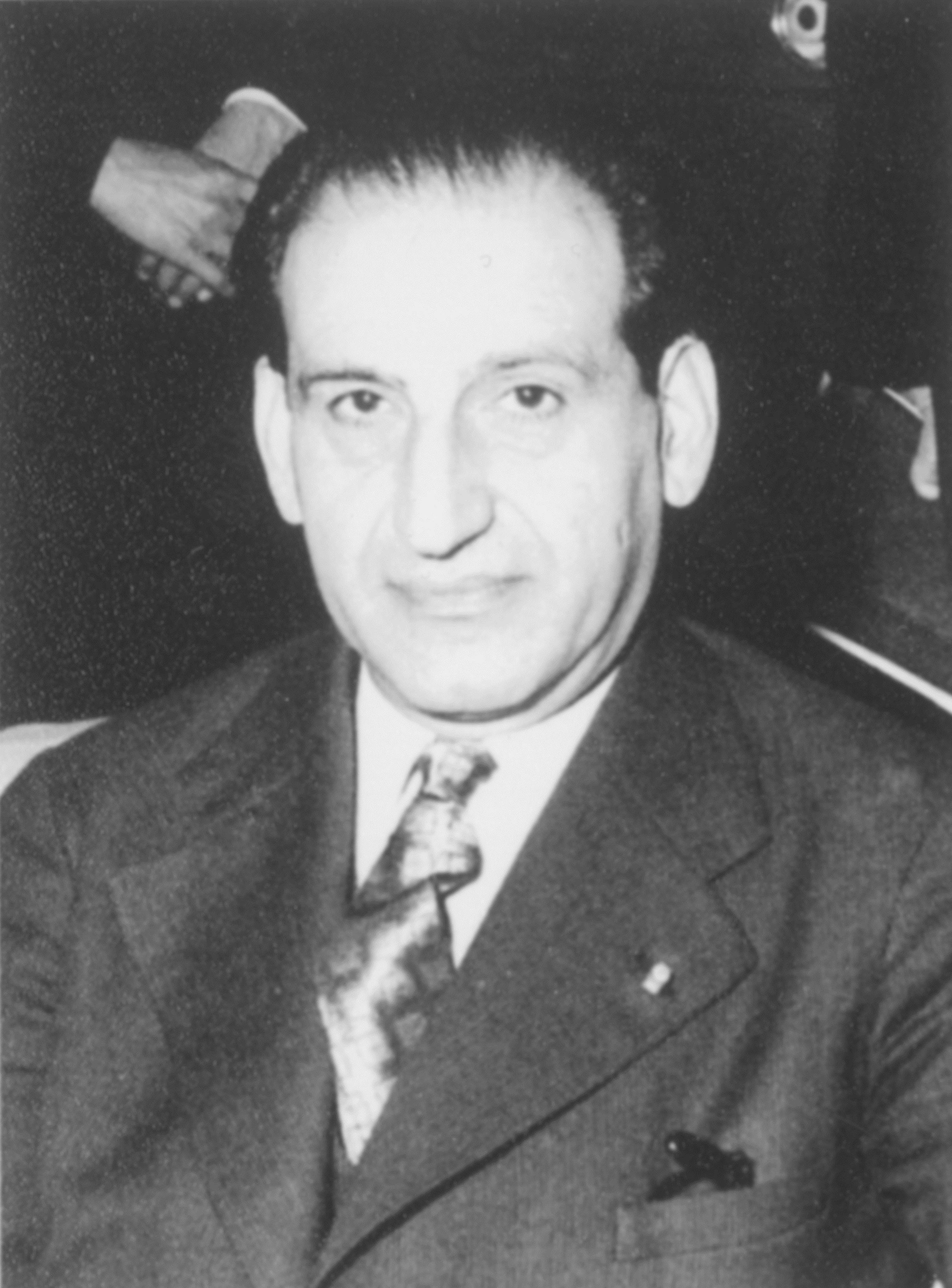 prof. Khanbaba Bayani